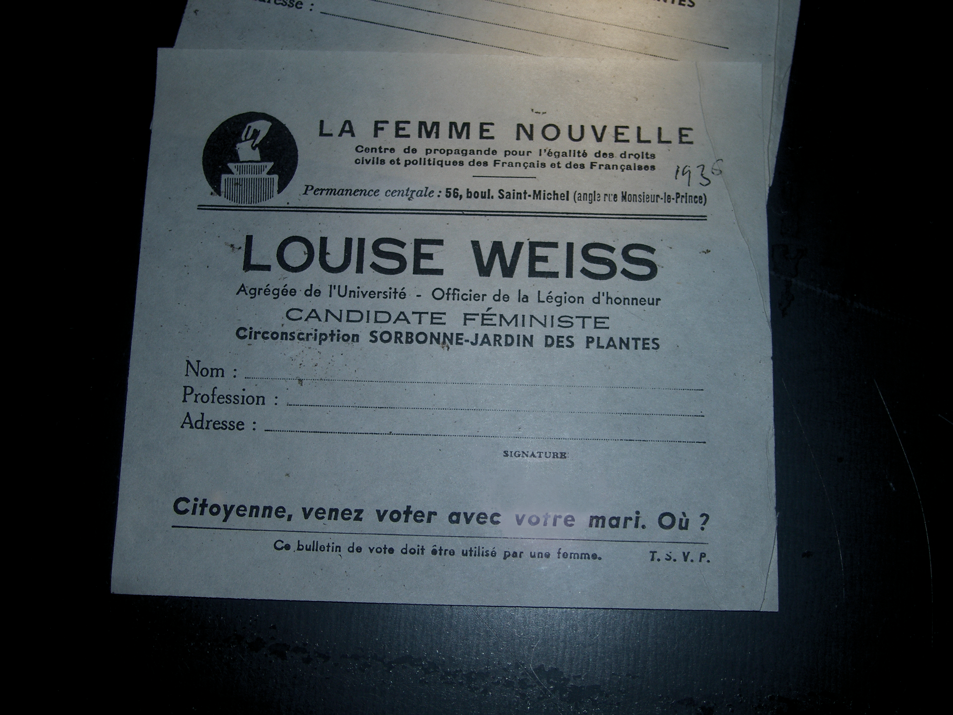 Propaganda ballot Louise Weiss. Feminist movement "La Femme Nouvelle". Savernes museum.